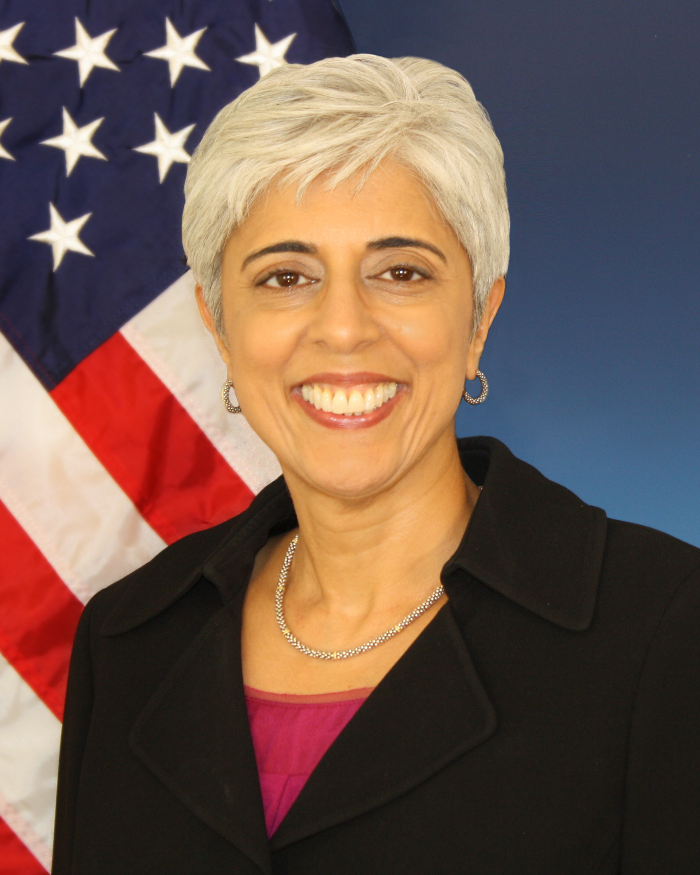 Official U.S. government headshot of DARPA director Arati Prabhakar.